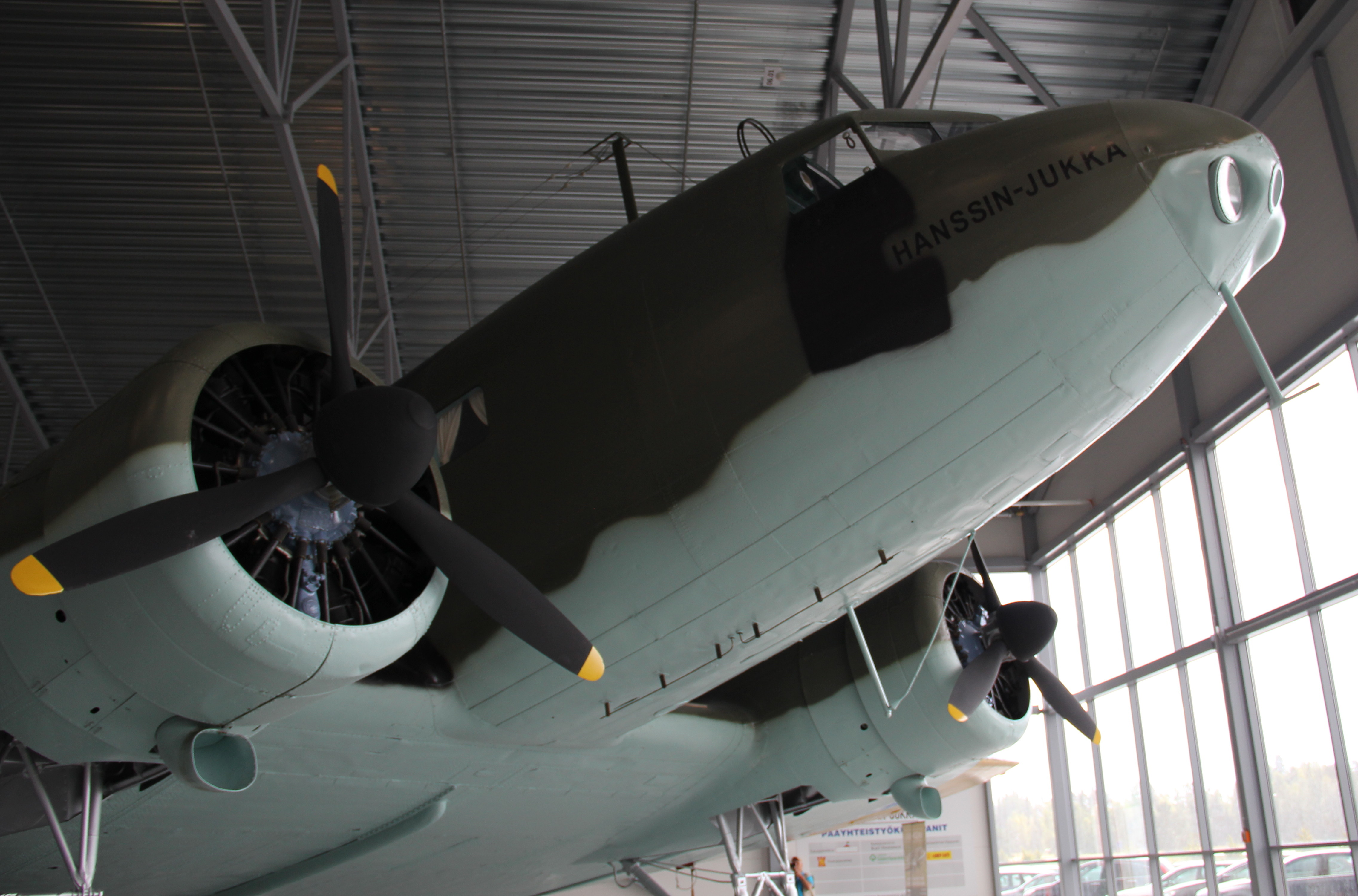 Douglas DC-2 airliner "Hanssin-Jukka", Hämeenlinna, Finland.